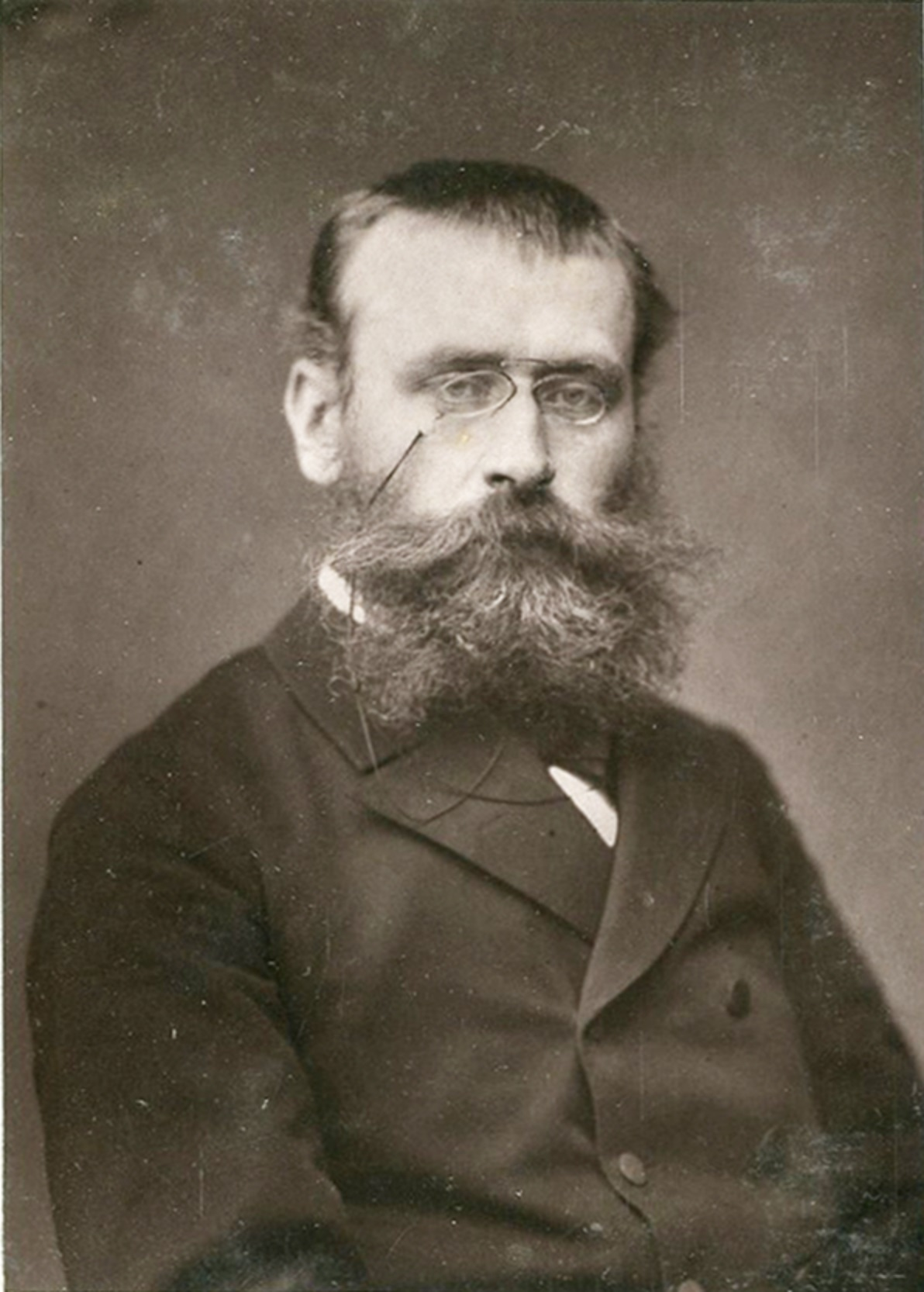 Own scan (created in 2019) of a historical photo of the French painter Henri-Paul Motte (1846-1922), created about 1880